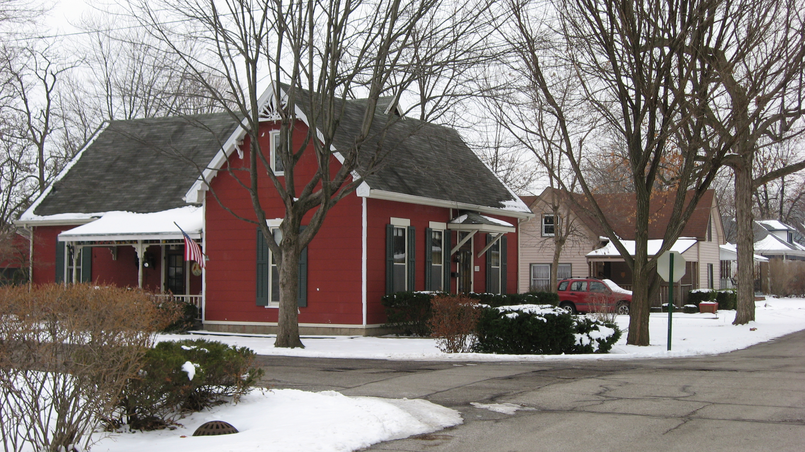 Houses on the southern side of Colmar Street west of the Wayburn Street intersection in Cumberland, Indiana, United States. These houses are part of the Cumberland Historic District, a historic district that is listed on the National Register of Historic Places.